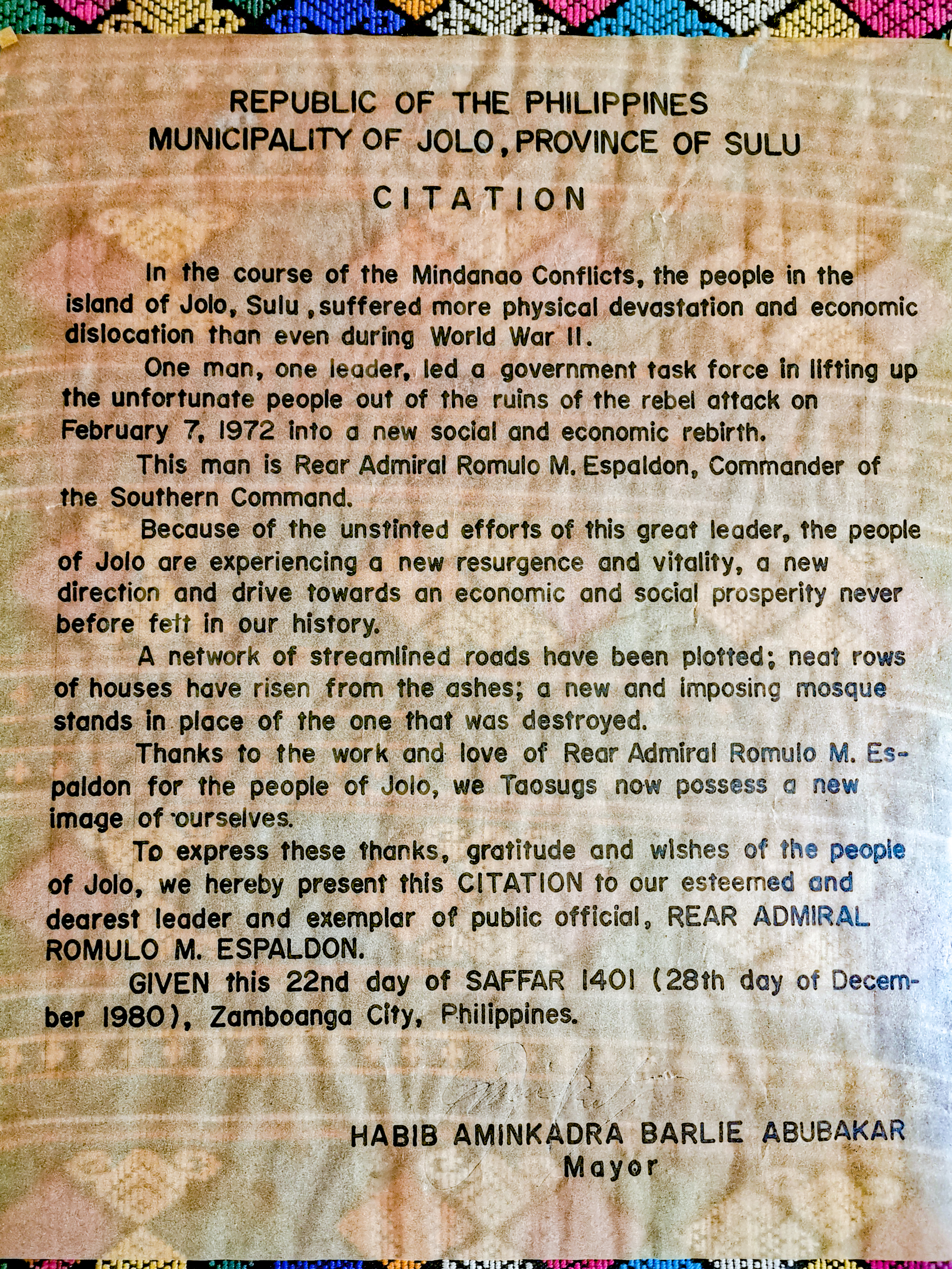 Citation from the Municipality of Jolo, Sulu given by Jolo Mayor Habib Aminkadra "Barlie" Abubakar to Rear Admiral Romulo Espaldon six years after the Battle of Jolo.